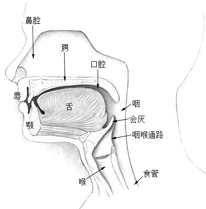 Head and Neck Overview